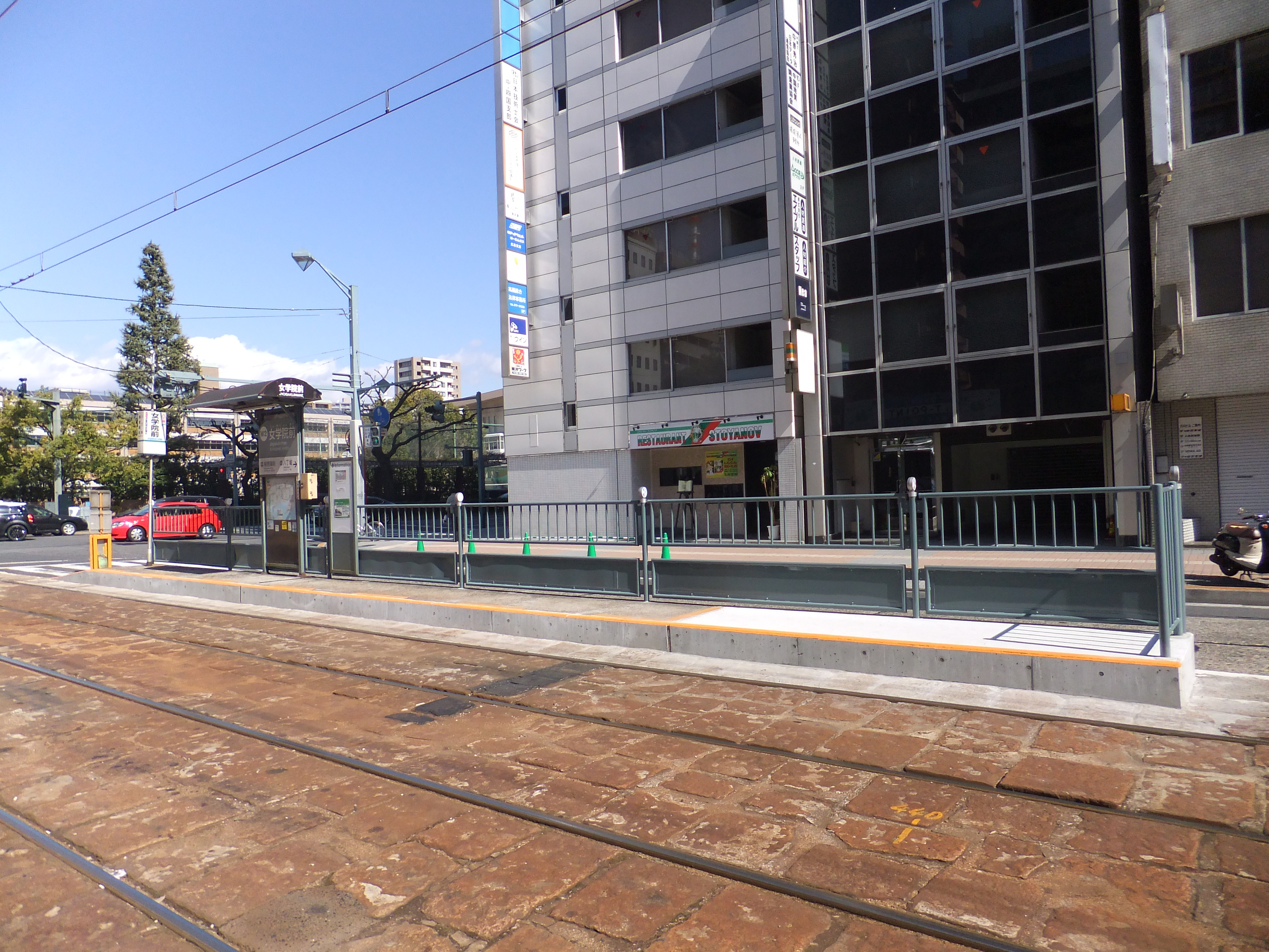 Hiroshima Electric Railway Jogakuinmae Station